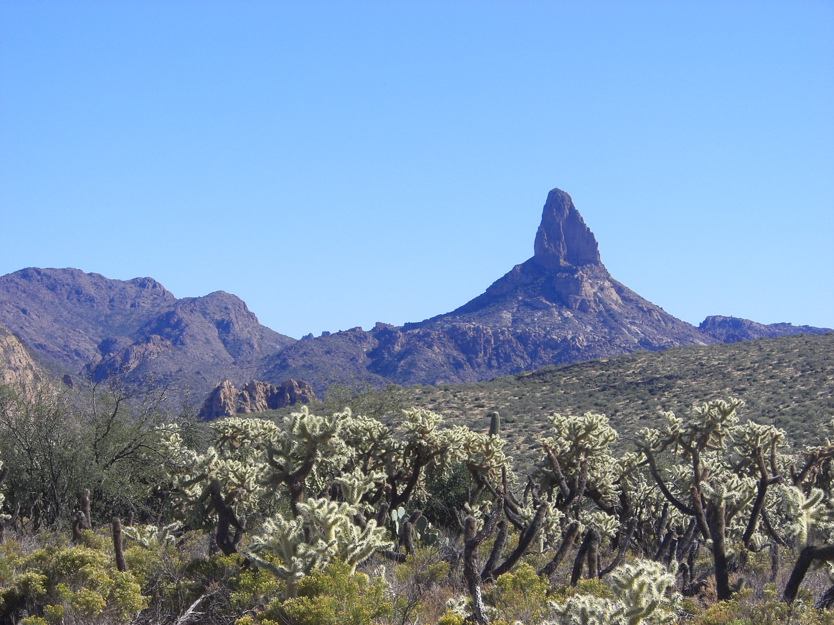 Weavers Needle, Superstition Wilderness, Arizona, USA